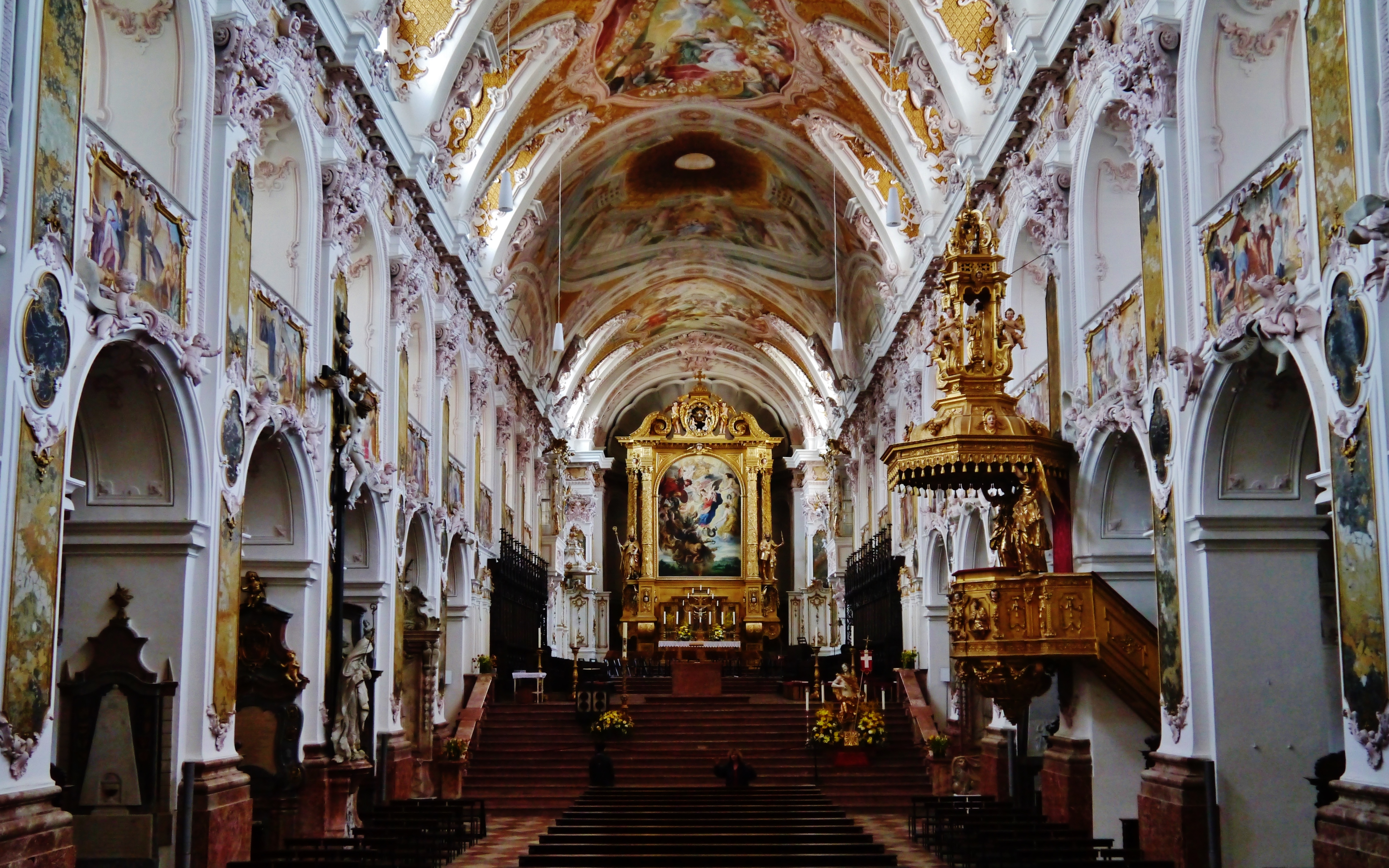 Nave of the Cathedral St. Mary Nativity & St. Corbinian, Freising, Bavaria, Germany